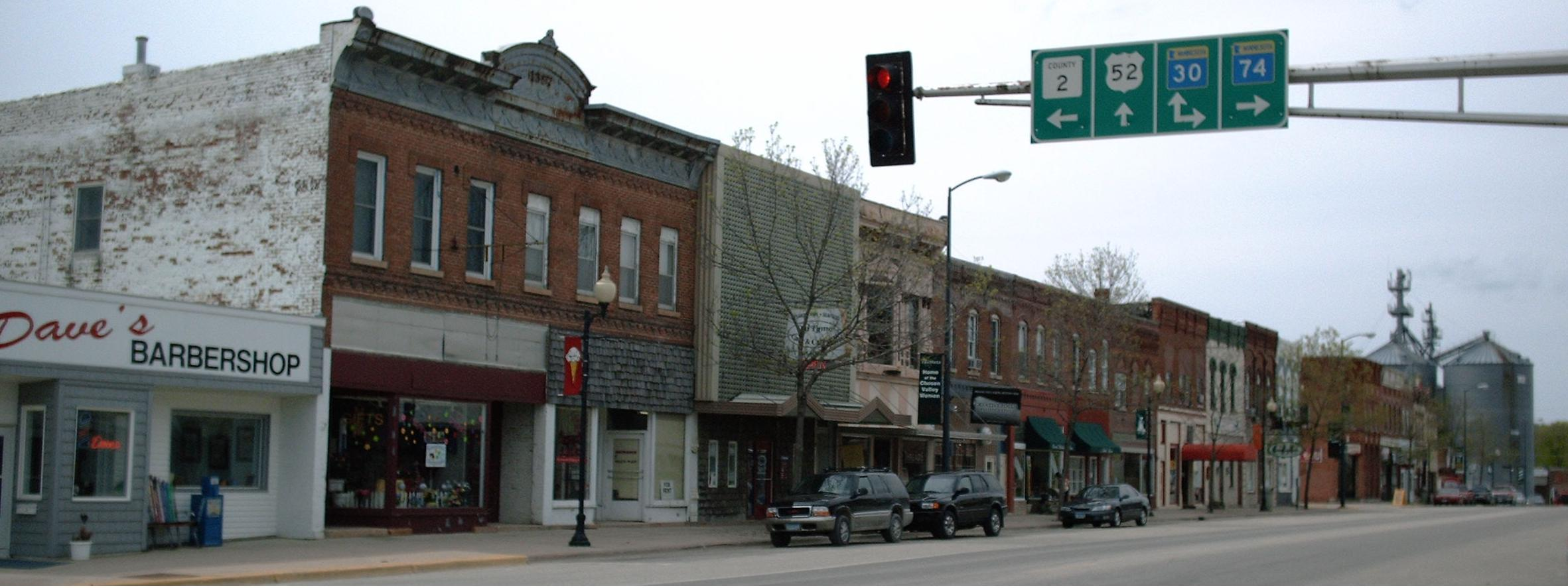 Photo I took 2006-05-01 in the center of downtown Chatfield, Minnesota, looking northwest. CC & GFDL.